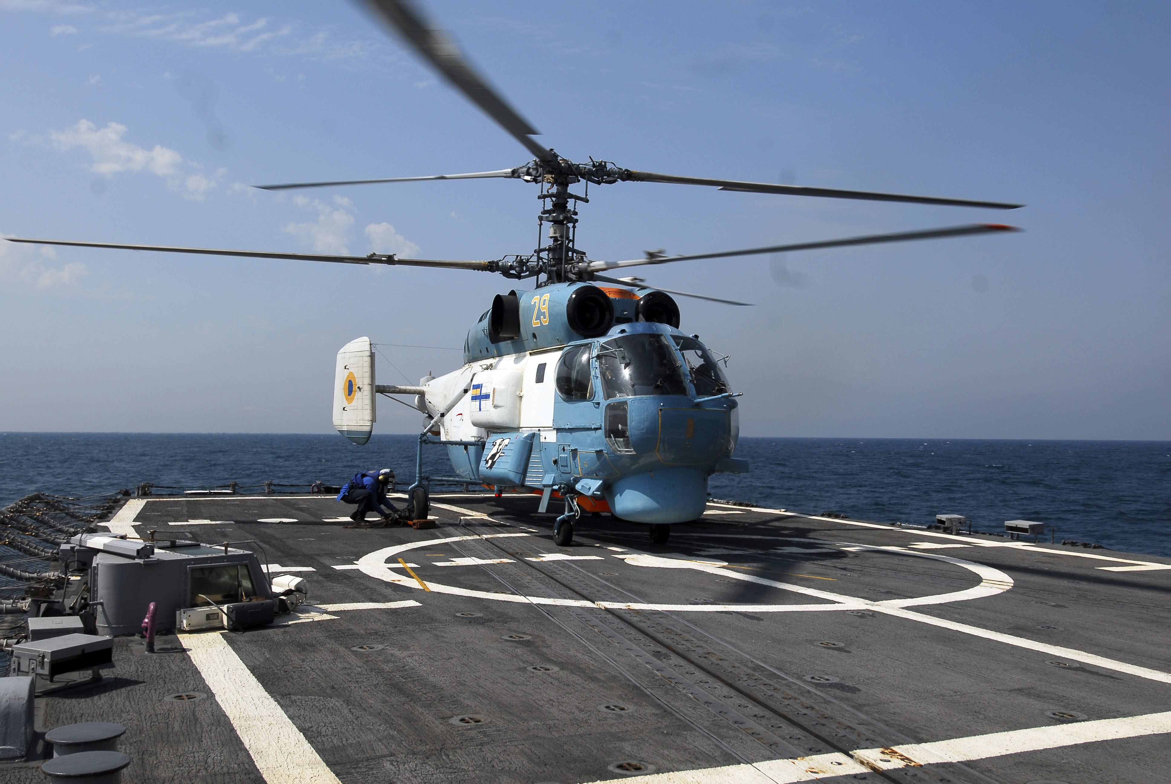 A Ukrainian navy Ka-27PS helicopter from Saky Naval Air Base conducts deck landing qualifications with guided missile frigate USS Taylor (FFG 50) during exercise Sea Breeze 2010 July 20, 2010, in the Black Sea. (U.S. Navy photo by Mass Communication Specialist 1st Class Edward Kessler/Released)